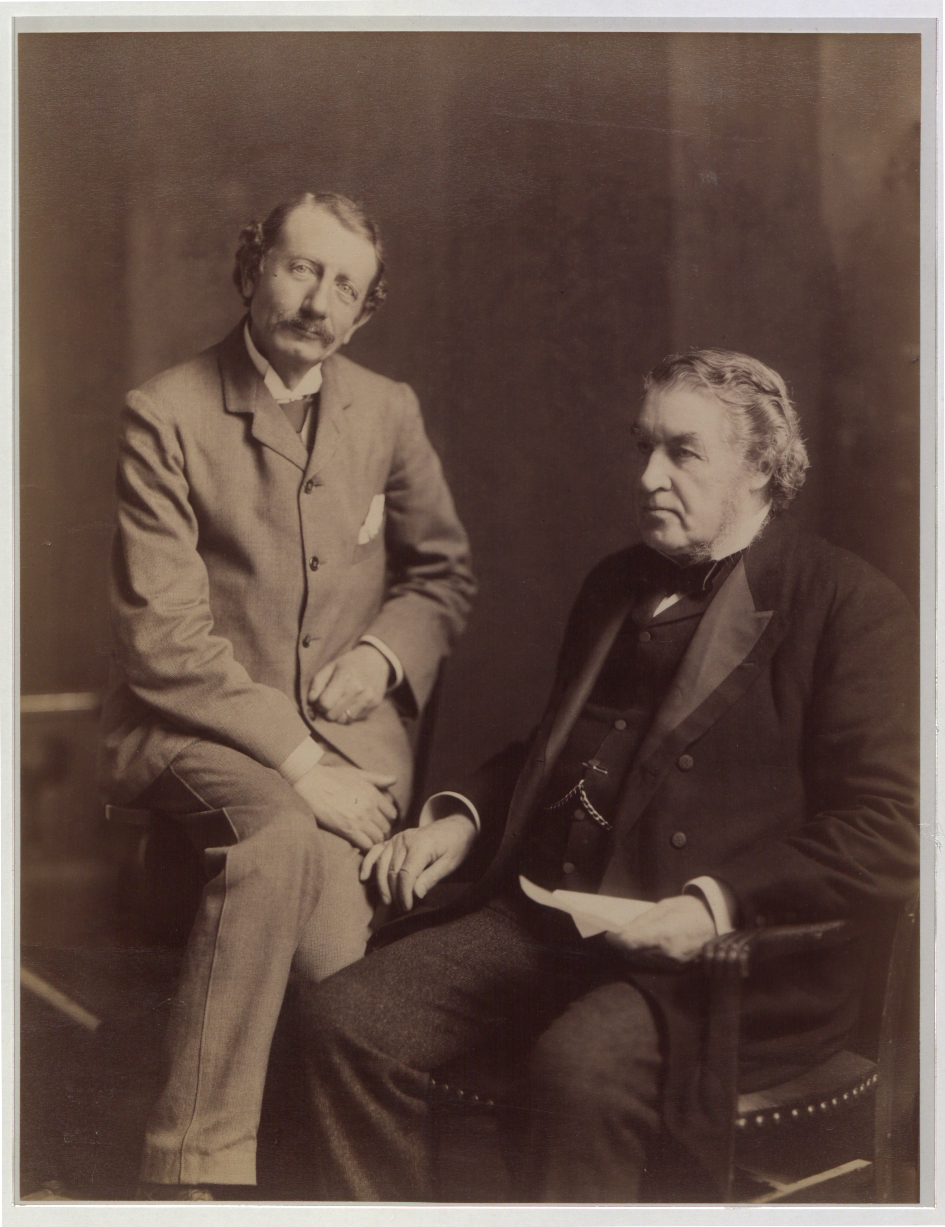 Sir Charles Tupper and Hugh John Macdonald. Photo B.